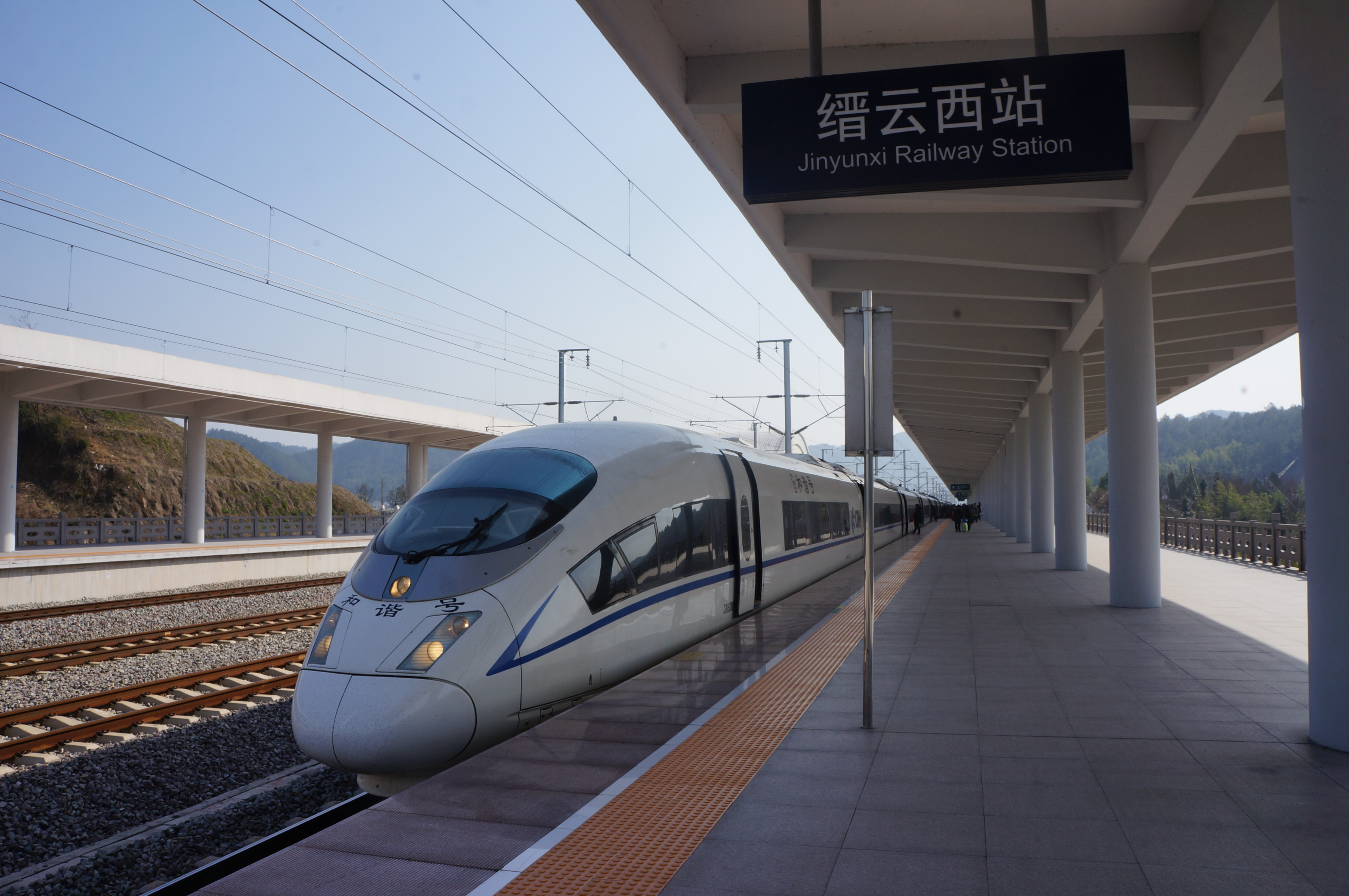 201701 G7326 at Jinyunxi Station